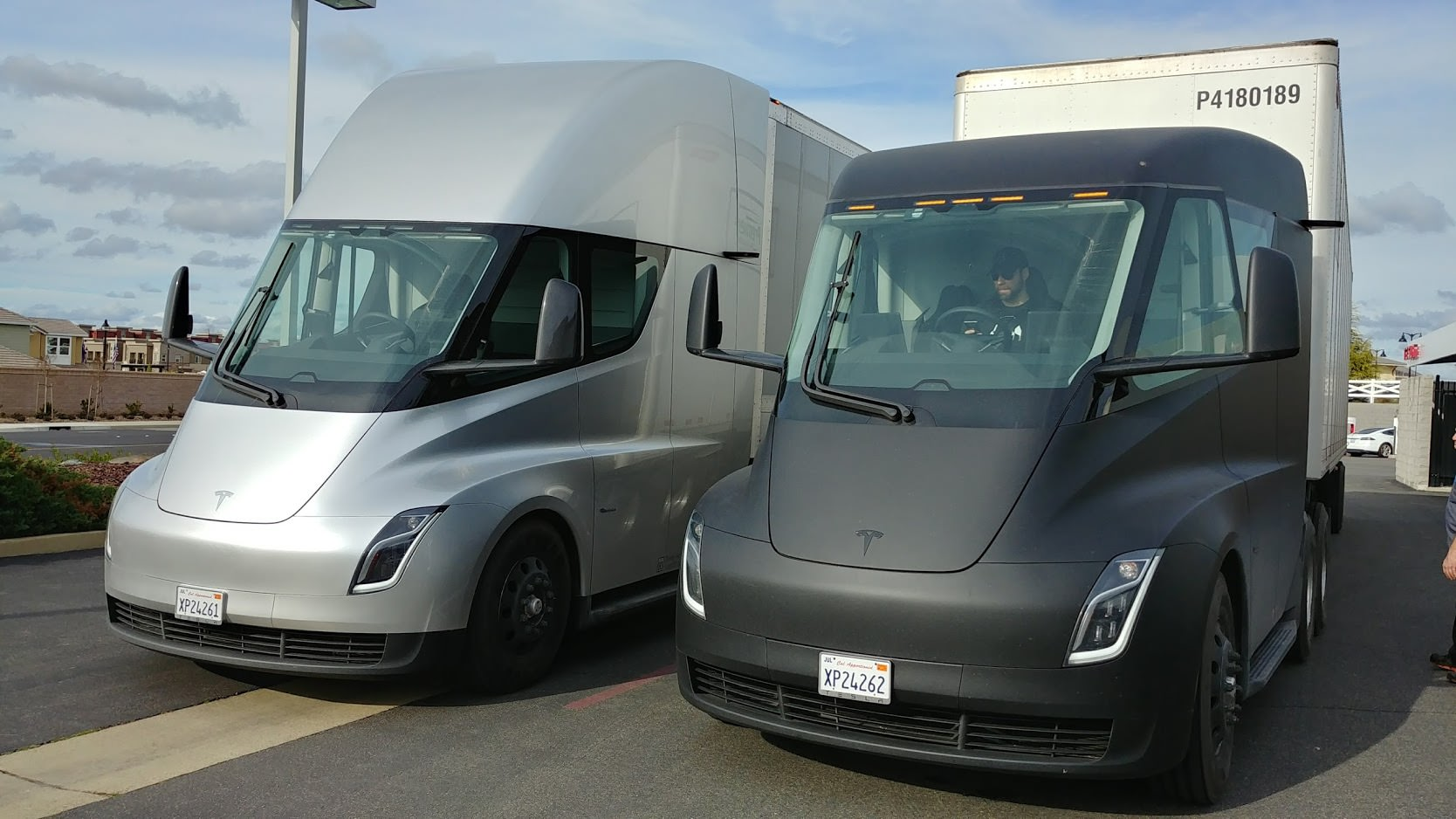 A silver and a black Tesla Semi in Rocklin, California